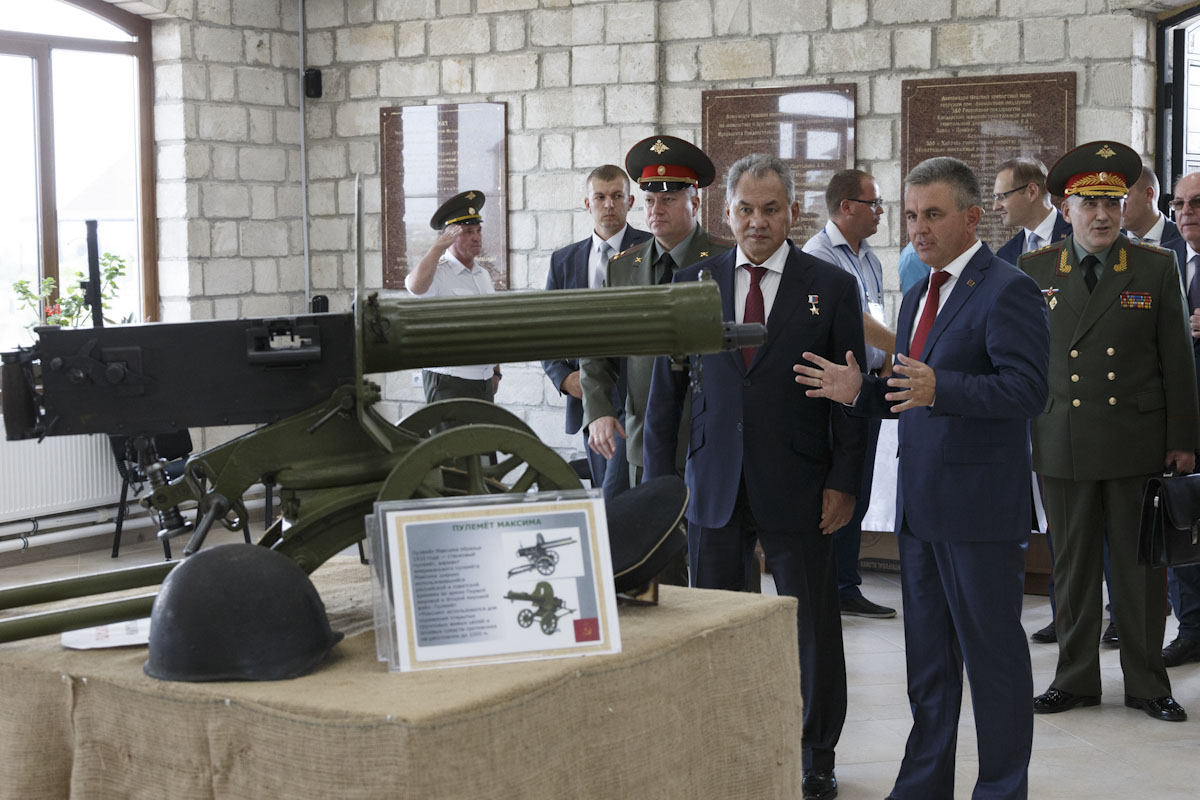 Глава российского военного ведомства проверил несение службы на миротворческом посту российскими военнослужащими